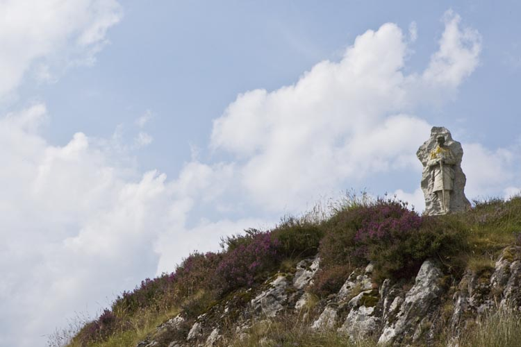 Author: Antony McCallum Clan MacRae Great War Monument Clachan Duich Unveiled by the Sir Colin G MacRae on 15th July 1922 on behalf of Clan MacRae Association